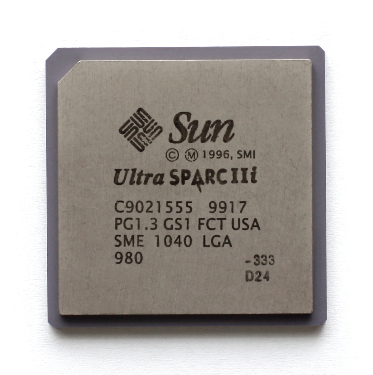 CPU SUN UltraSparc IIi.